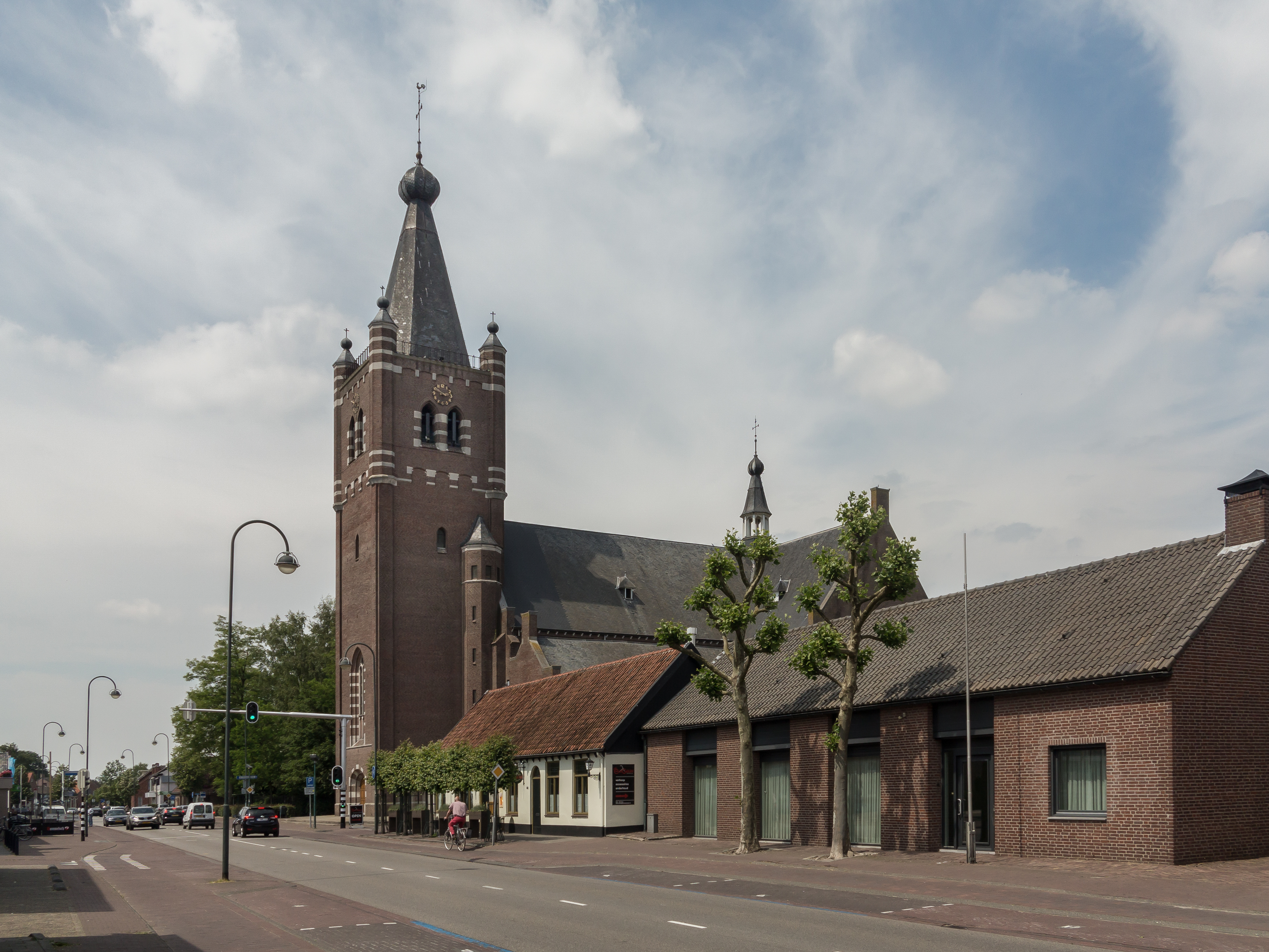 Chaam, catholic church: kerk van de Sint Antonius Abt